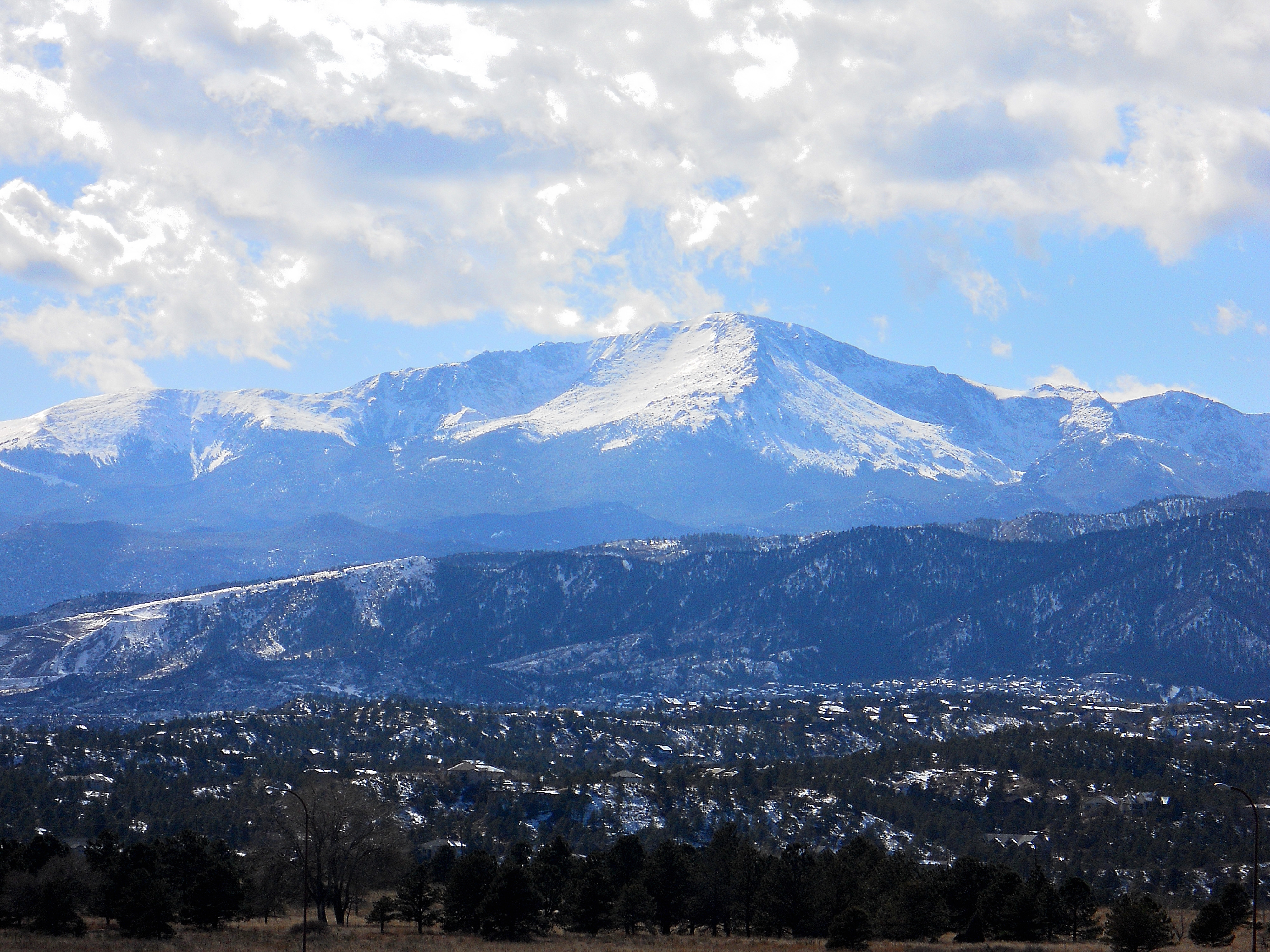 Picture of Pike's Peak on a mildly cloudy winter day.